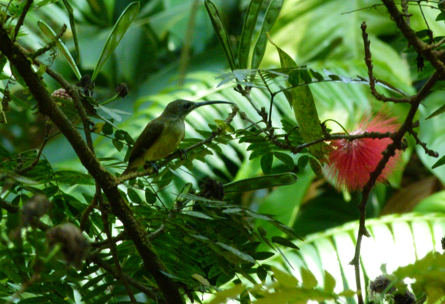 Little Spiderhunter, Wynaad, India